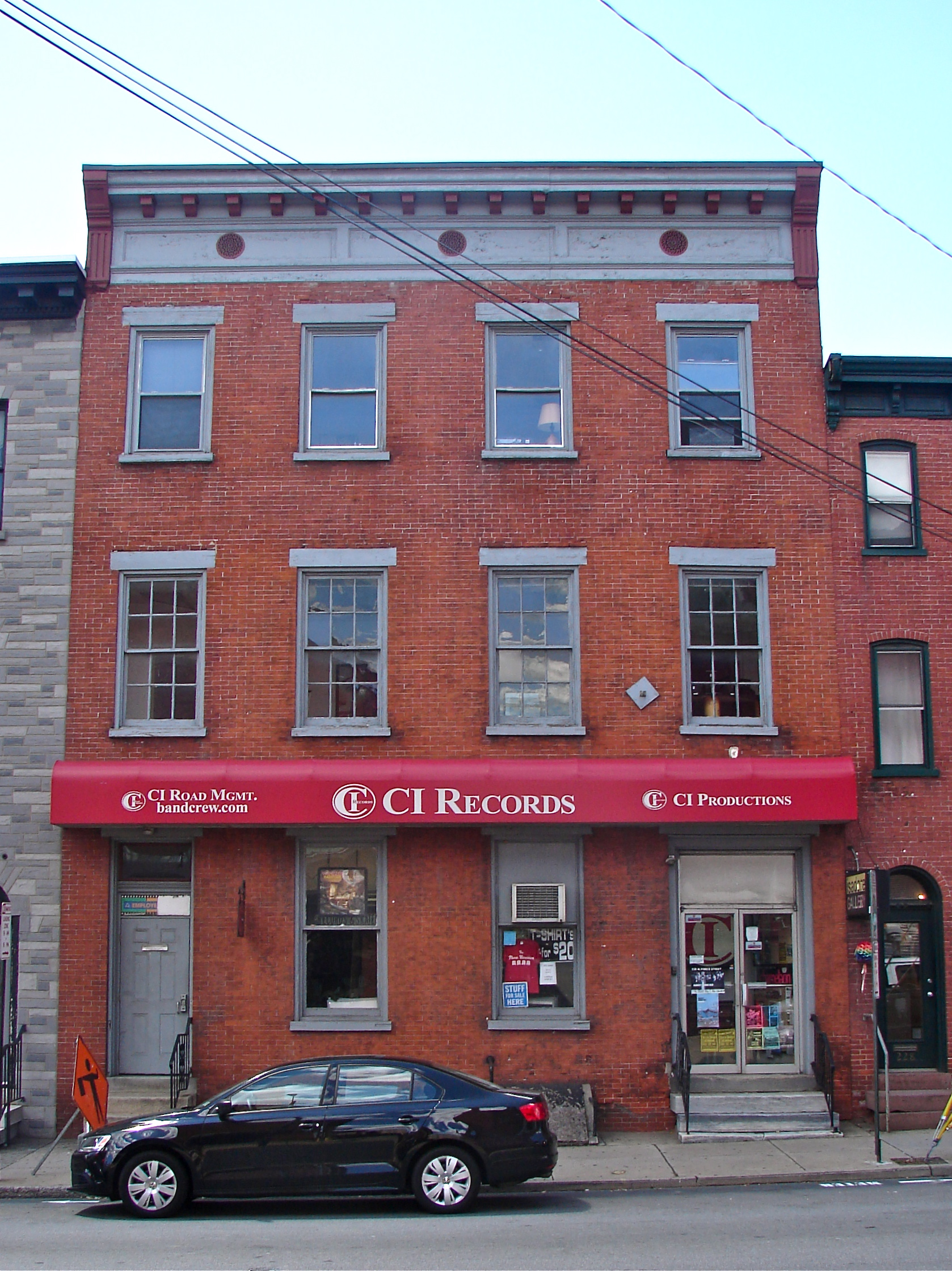 John Brimmer Tobacco Warehouse on the NRHP since September 21, 1990. At 226 North Prince Street, in the Chestnut Hill neighborhood of Lancaster, Pennsylvania. Part of the NRHP multiple submission for tobacco industry buildings in Lancaster